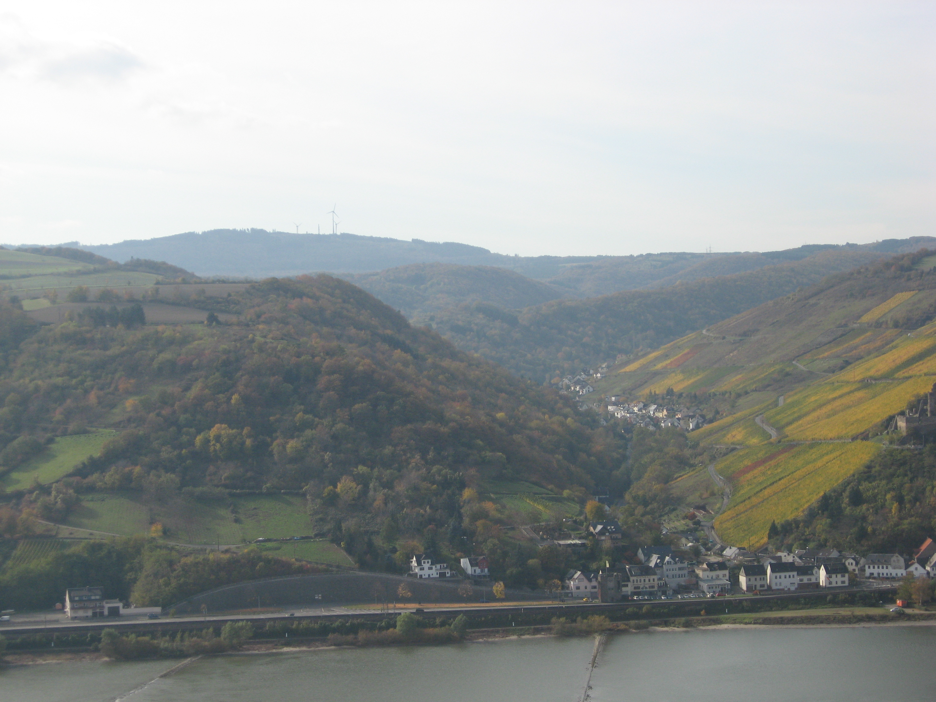 River Rhine, Rheindiebach and the Kandrich hill, Germany.